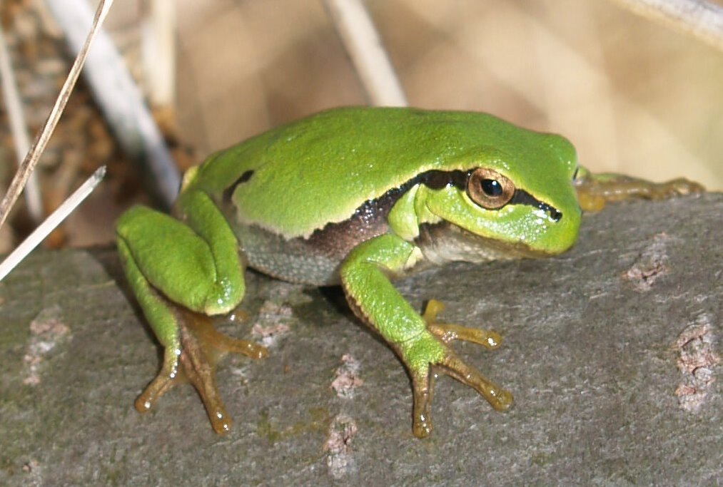 Hyla arborea. Digital photo taken in the beginning of June 2006 in Mazovia (Poland).